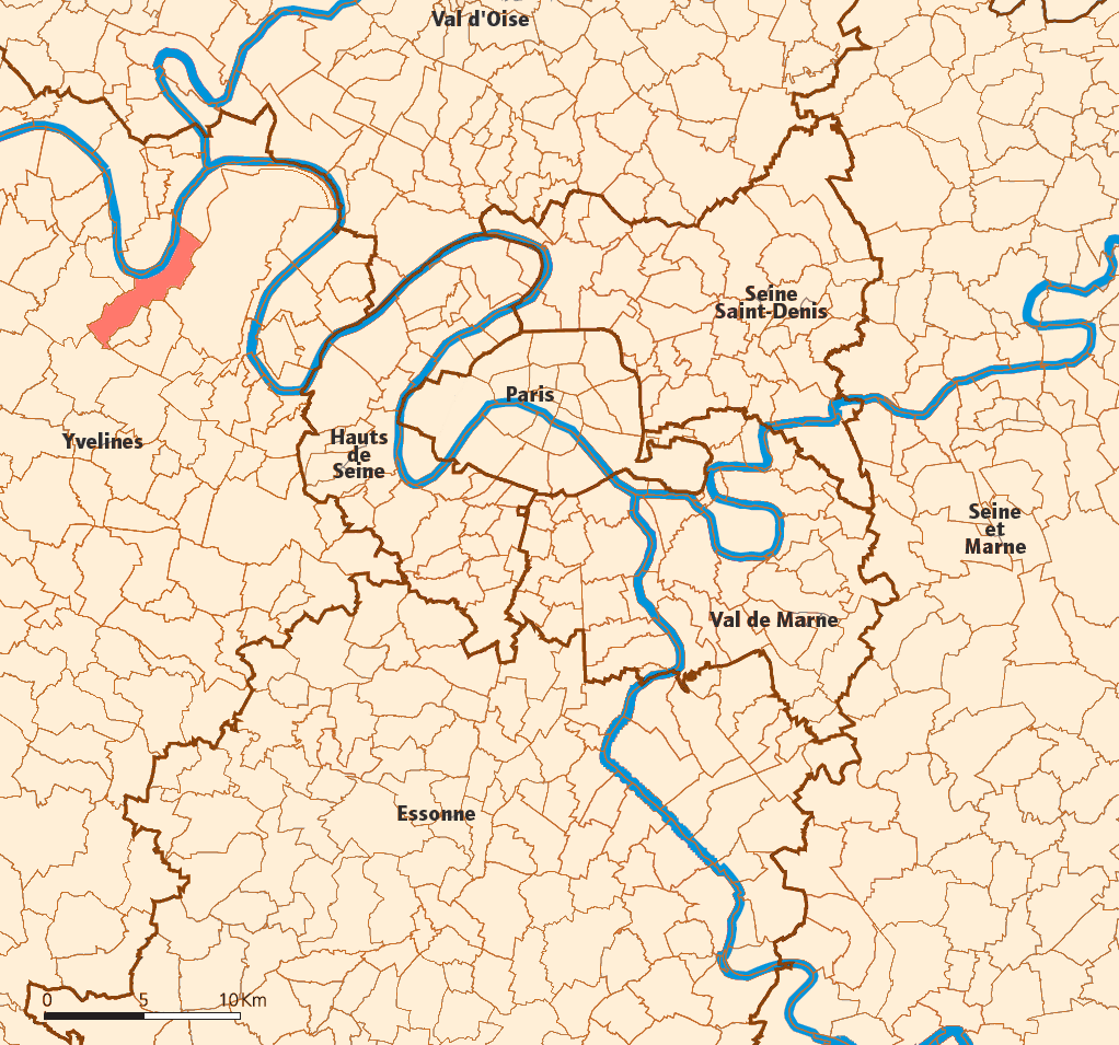 Created map myself.